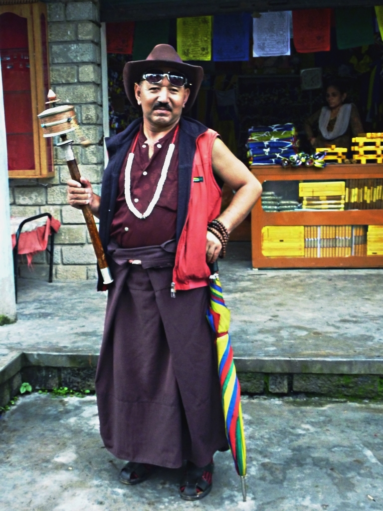 I took this photo on a trip to Rewalsar in 2010